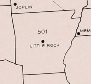 Missouri area code map, as of 1952 — 501